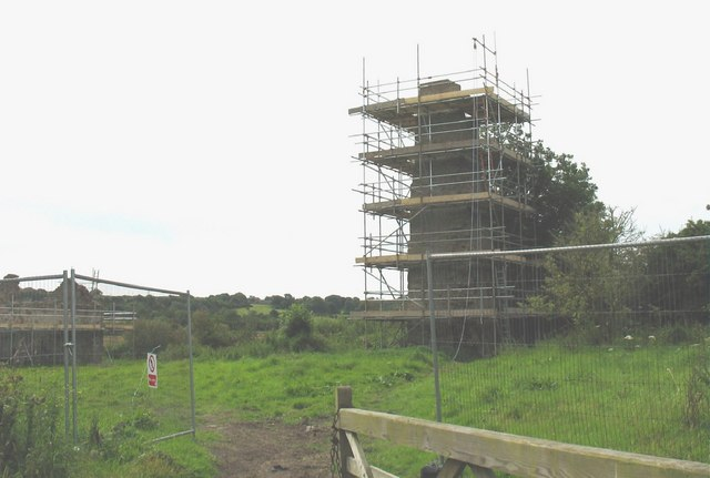 The renovation of the Berw Colliery Buildings People laugh when you mention the Anglesey Coalfield. But in fact coal was mined in the Malltraeth Marshes from the 16thC - a ship load was sent to Ayr in 1577 and another to France in 1595. These were mainly shallow mines with shafts up to the depth of 130 yards. The Berw Colliery was opened around 1815. The Llangristiolus Burial Register for 1842 records the burial of Wm Williams killed underground at Berw, aged 12. The buildings are scheduled monuments and are at present being safeguarded under a project financed by the National Lottery. Public access to the site will resume sometime in September.